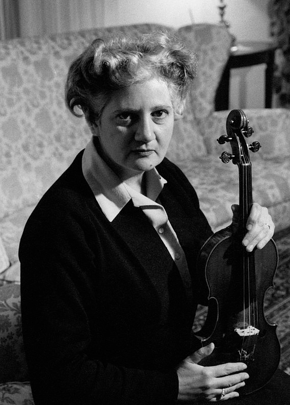 Italian-born British violinist Gioconda De Vito (Gioconda Anna Clelia De Vito) sitting in her living room holding a violin. Gioconda De Vito decided she will never play again. 1961.